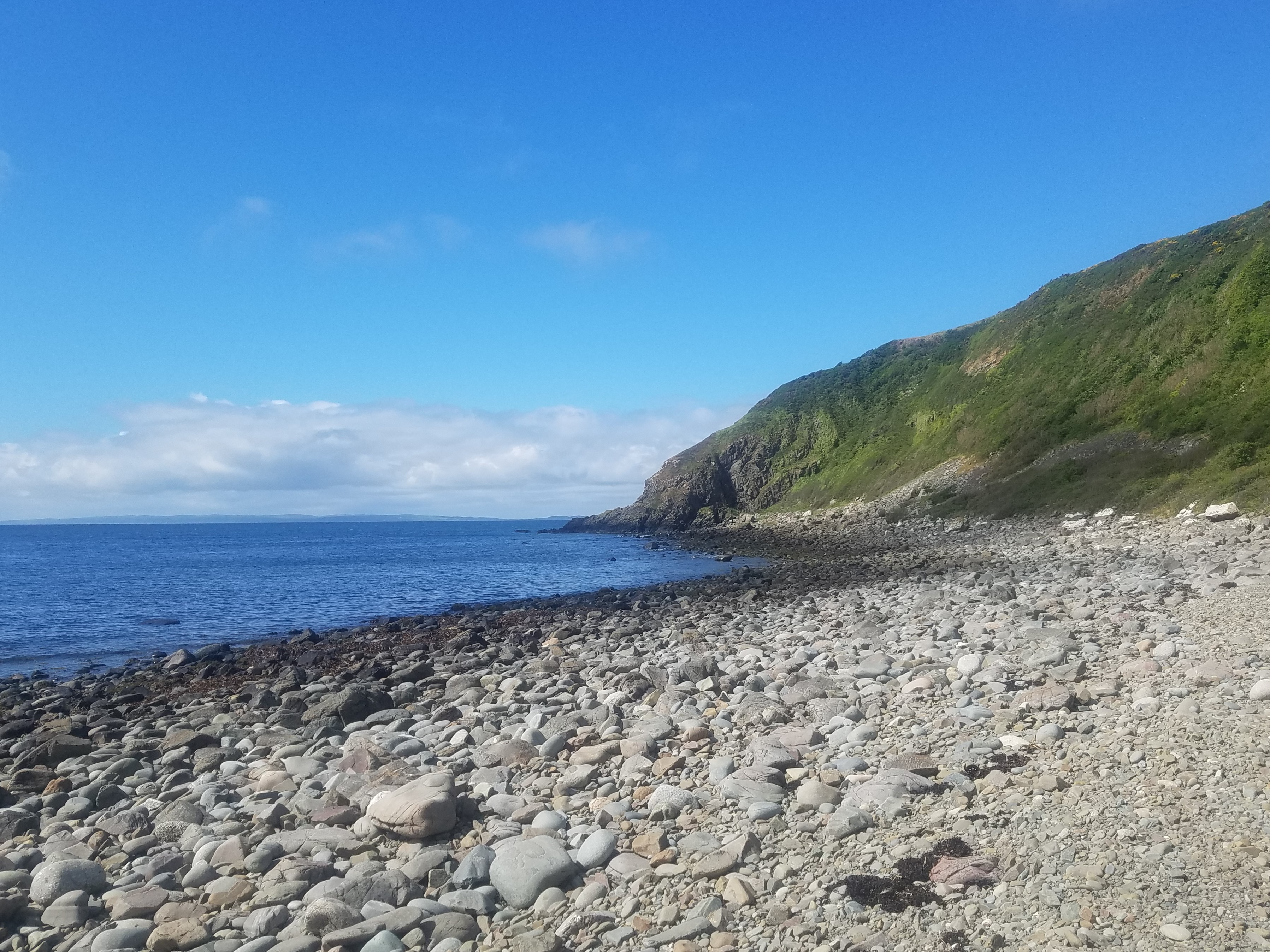 Sinniness Head and Luce bay viewed from Auchenmalg beach